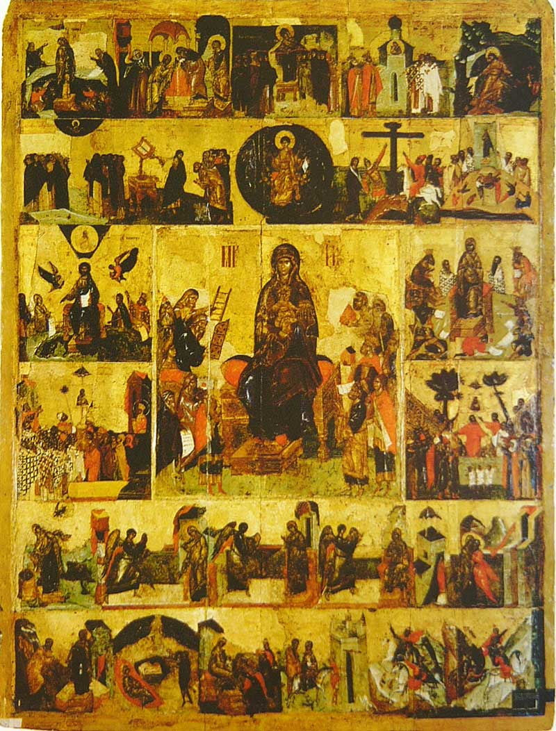 Praise to Virgin Mary